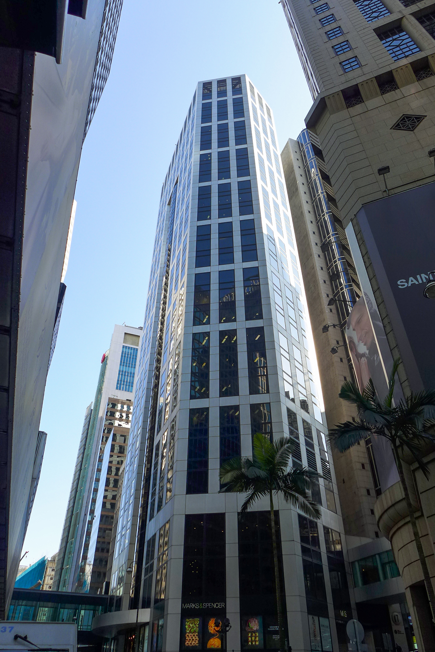 Central Tower